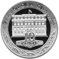 Coin of Ukraine